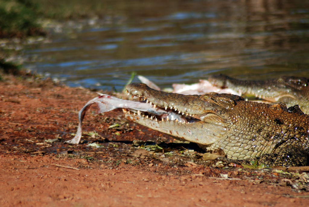 A crocodilian feeds in a zoo in Broome